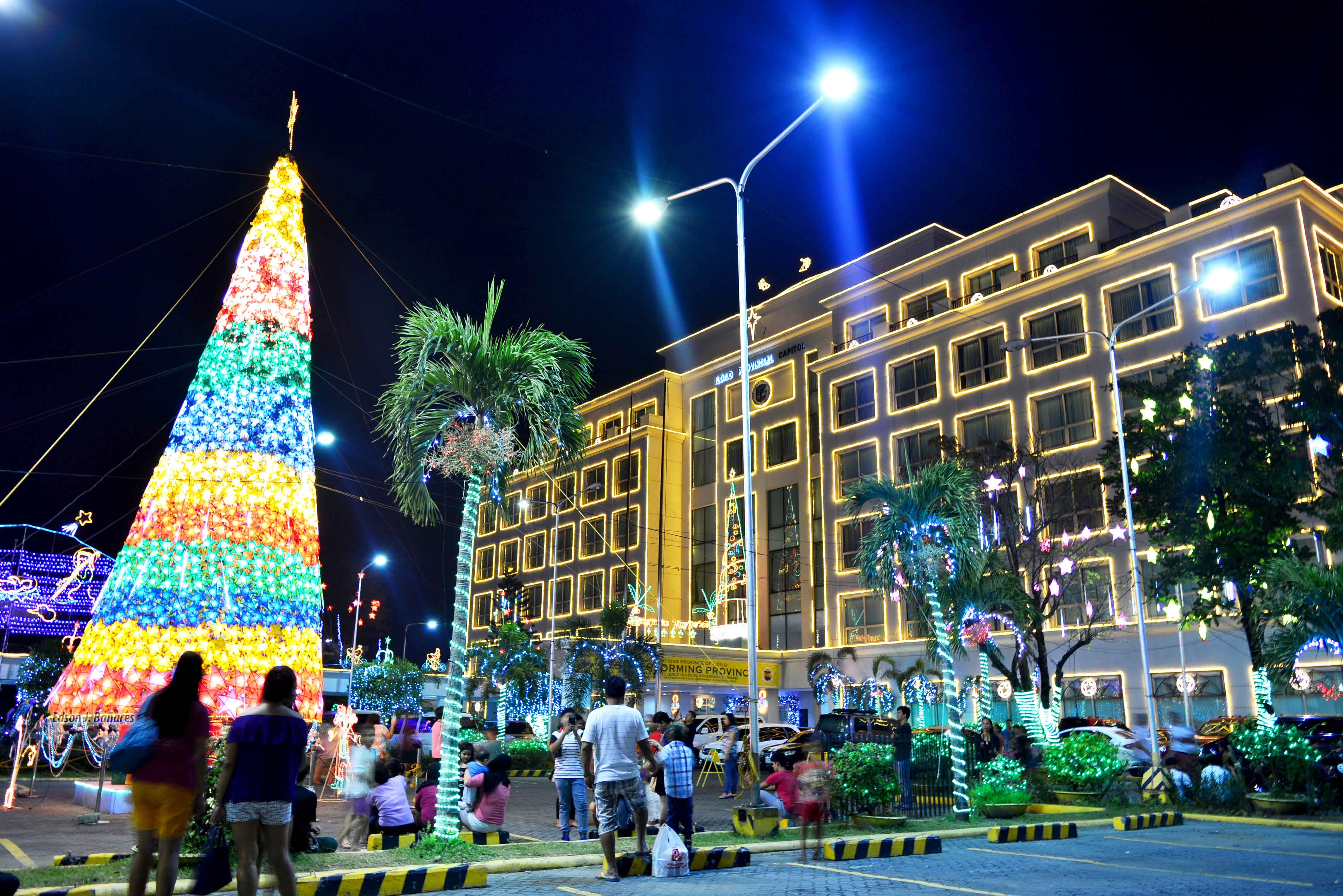 Families visit the Iloilo Provincial Capitol every night to see its beautiful lights display during this Christmas season, Iloilo City. (PIA 6)